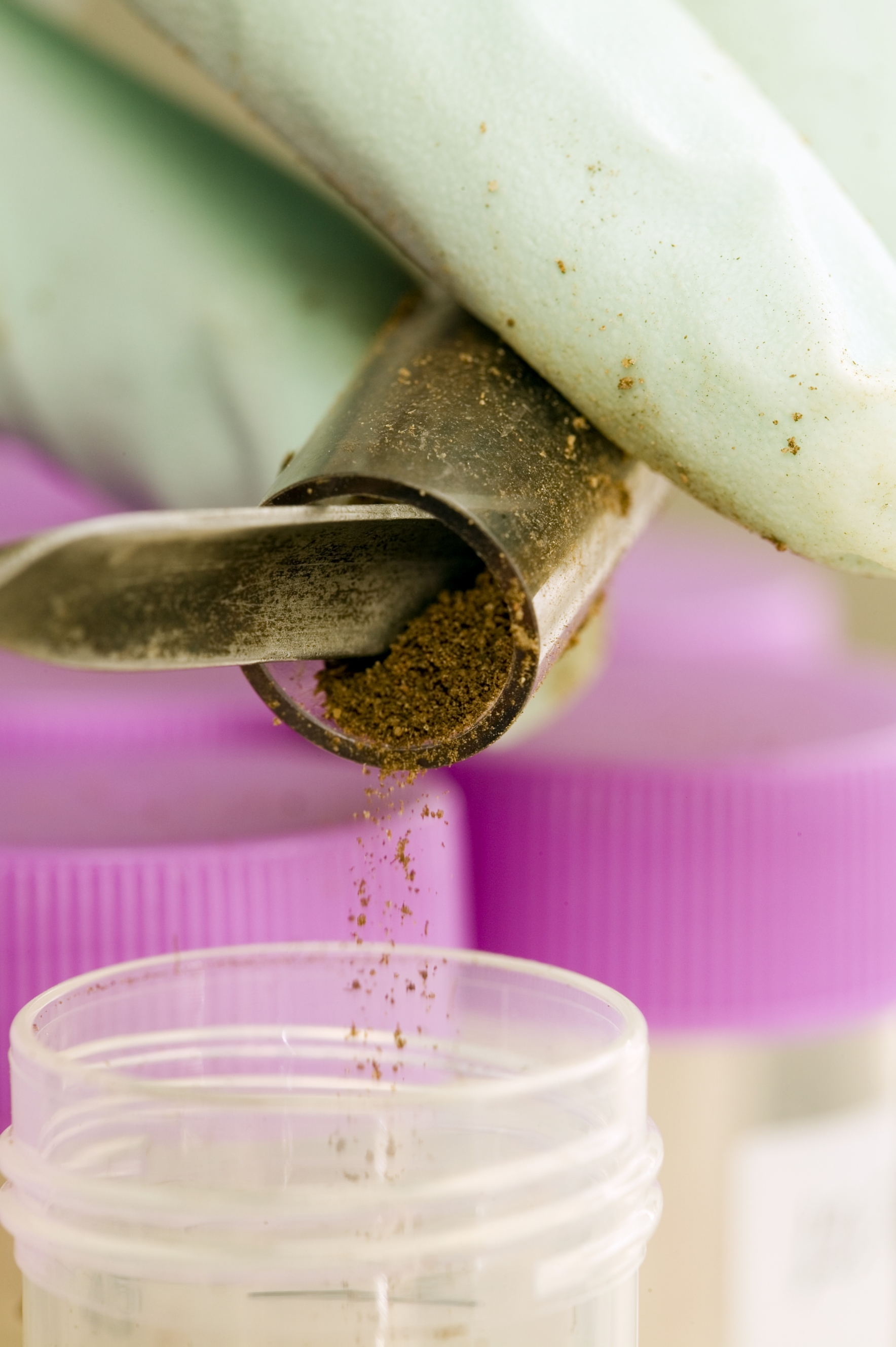 PhD candidate Karen Schwarz's research project is on the length of survival of enteric (intestinal) pathogens in cereal crops after the application of biosolids (sewage sludge). Biosolids as fertiliser are applied to agricultural land in the Central Wheatbelt (eg. Moora) as a recycling program by the Water Corporation.